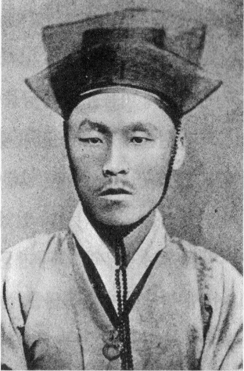 Kim Ok-gyun